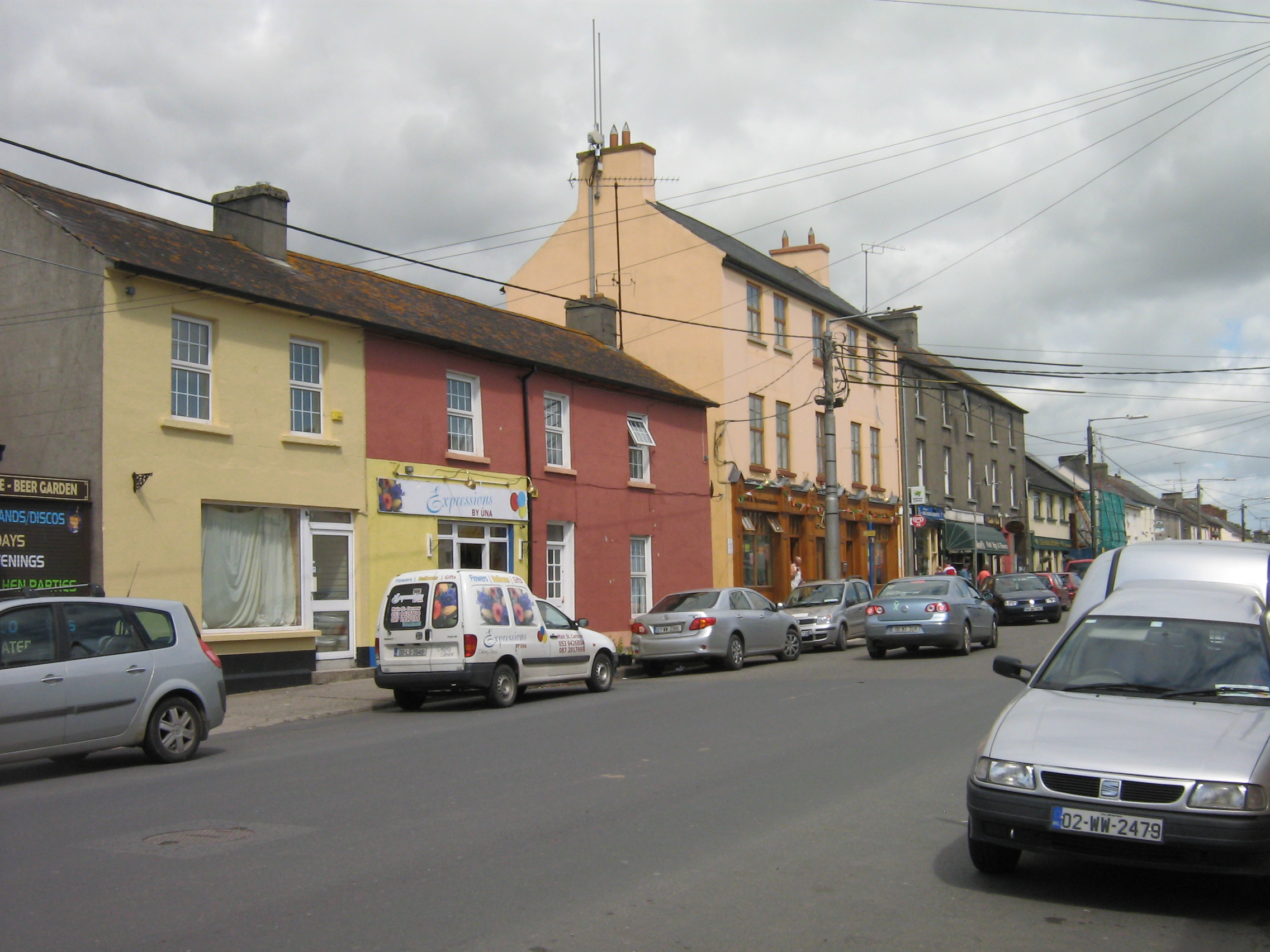 Mainstreet of Carnew, County Wicklow